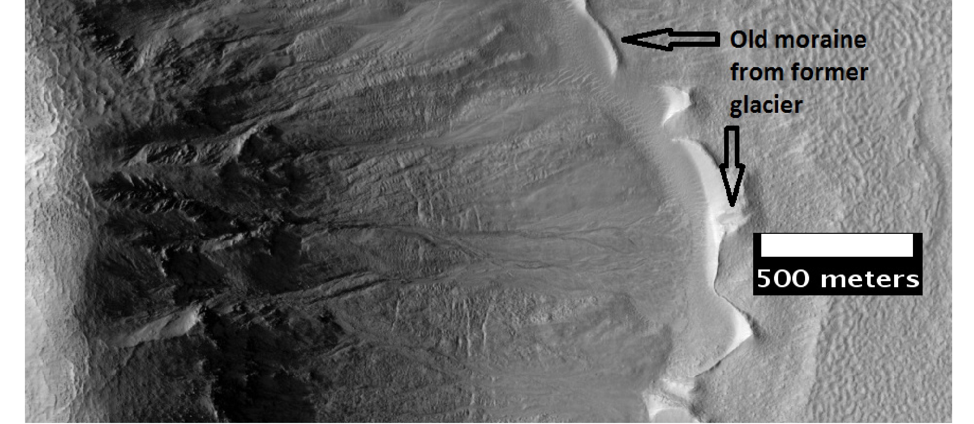 Hirise image, taken under HiWish program, of gullies and remains of galciers in Terra Sirenum. Location is 44.1 S and 212.8 E.